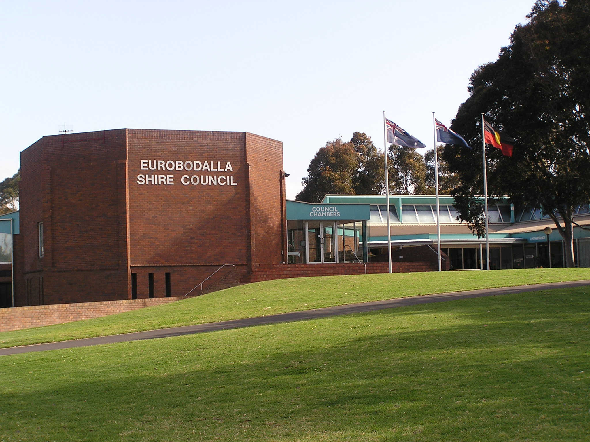 Offices of Eurobodalla Shire, at Moruya, New South Wales, Australia